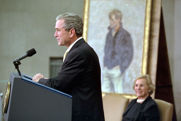 President George W. Bush speaks at the Justice Department on November 20, 2001 as he dedicates the building as the Robert F. Kennedy Justice Department Building. Sitting beside a portrait of RFK is his widow, Ethel.